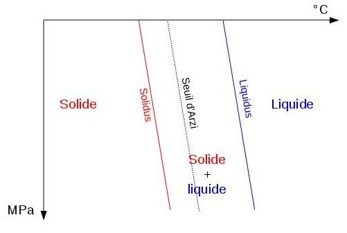 Phase diagram with inter-connectability line of liquids (Arzi line).